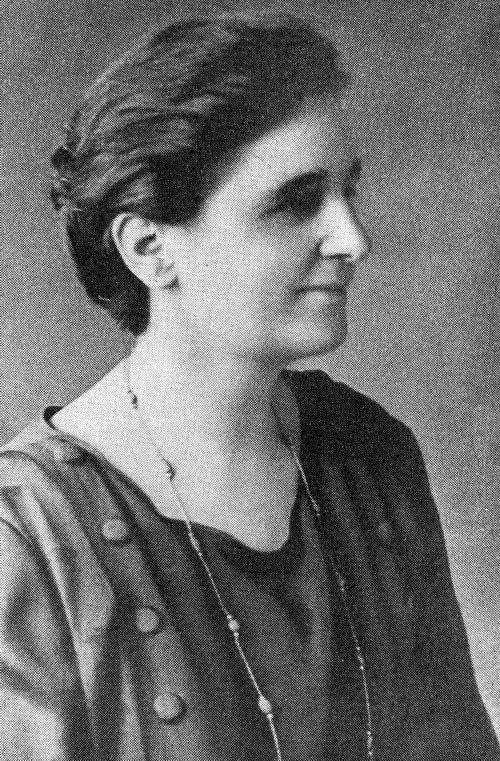 Margaret Hilda Harper guess 1935